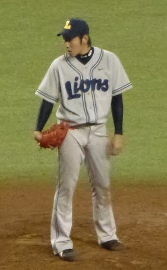 Yusei Kikuchi, pitcher of the Saitama Seibu Lions, at Seibu Dome.